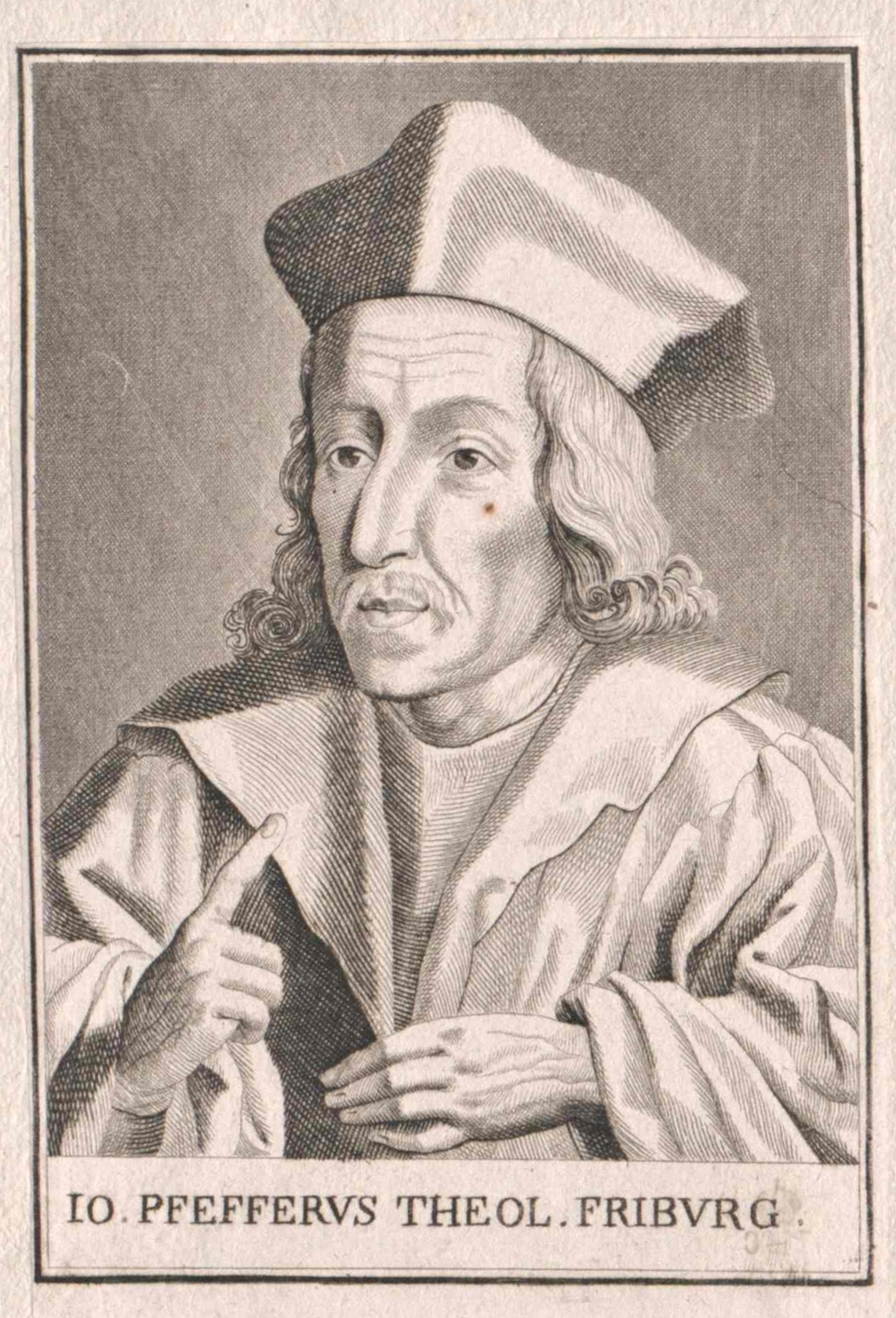 Johann Pfeffer (* 1493) aus Weidenberg, katholischer Priester und Theologe an den Universitäten Heidelberg und Freiburg im Breisgau